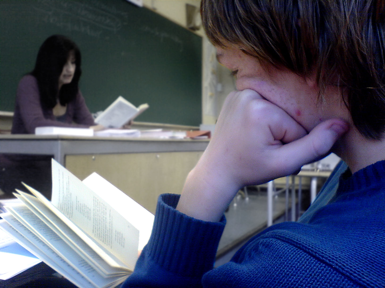 Reading an Old Norse text in the classroom.